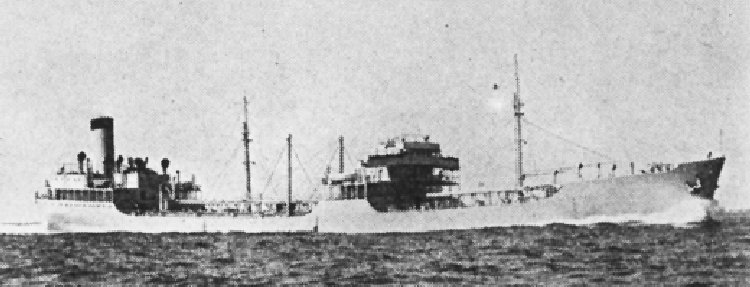 The U.S. Navy fleet oiler USS Neosho (AO-48) underway during World War II.